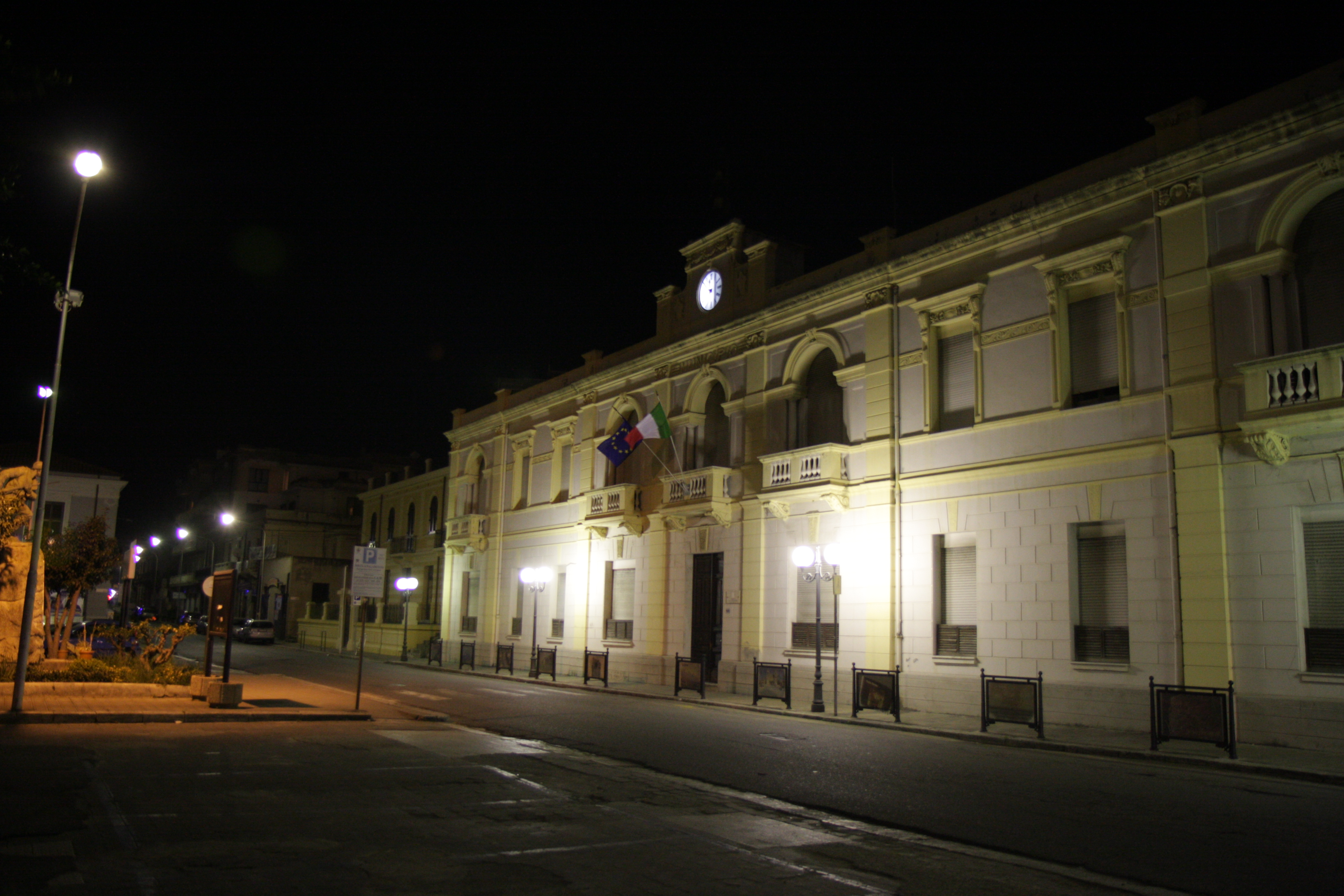 Municipality of Villa San Givanni